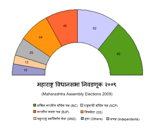 Maharashtra Assembly Elections 2009 - Pie chart showing results